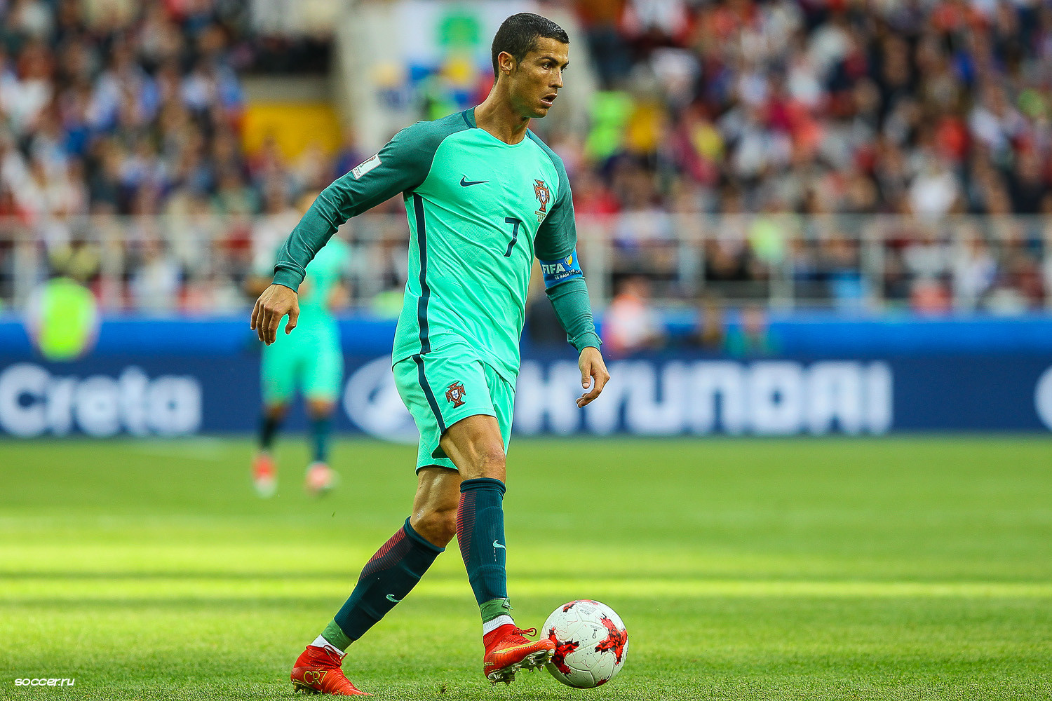 Russia VS. Portugal 0 - 1, 21 June 2017